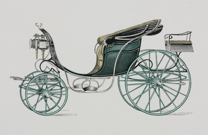 Park phaeton, 1906. One of a series of designs for various types of horse-drawn transport by J & C Cooper published in the Coachbuilders and Wheelwrights' Art Journal.